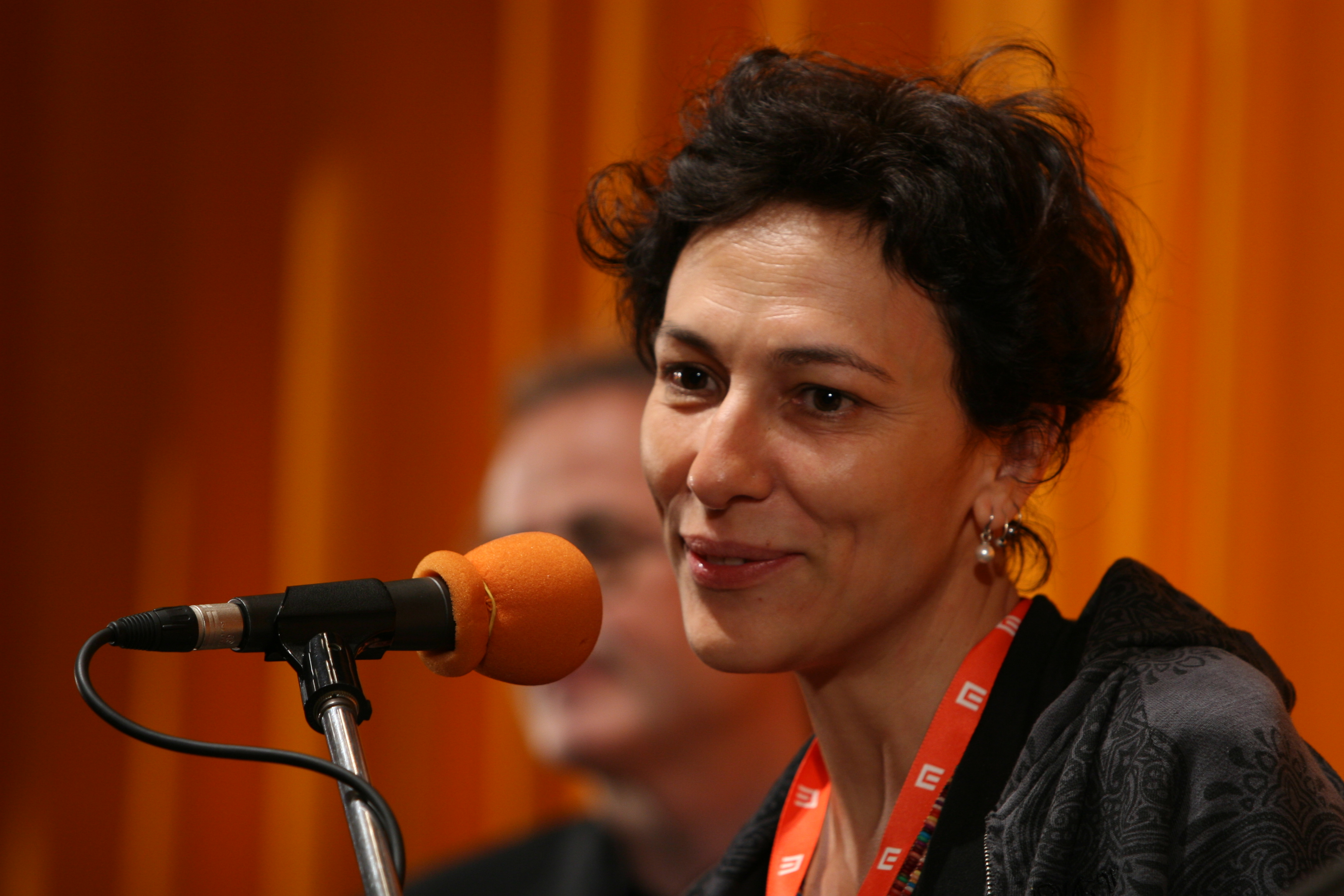 Anna Negri at Karlovy Vary International Film Festival